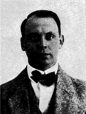 Swedish politican Karl Samuel Levinson